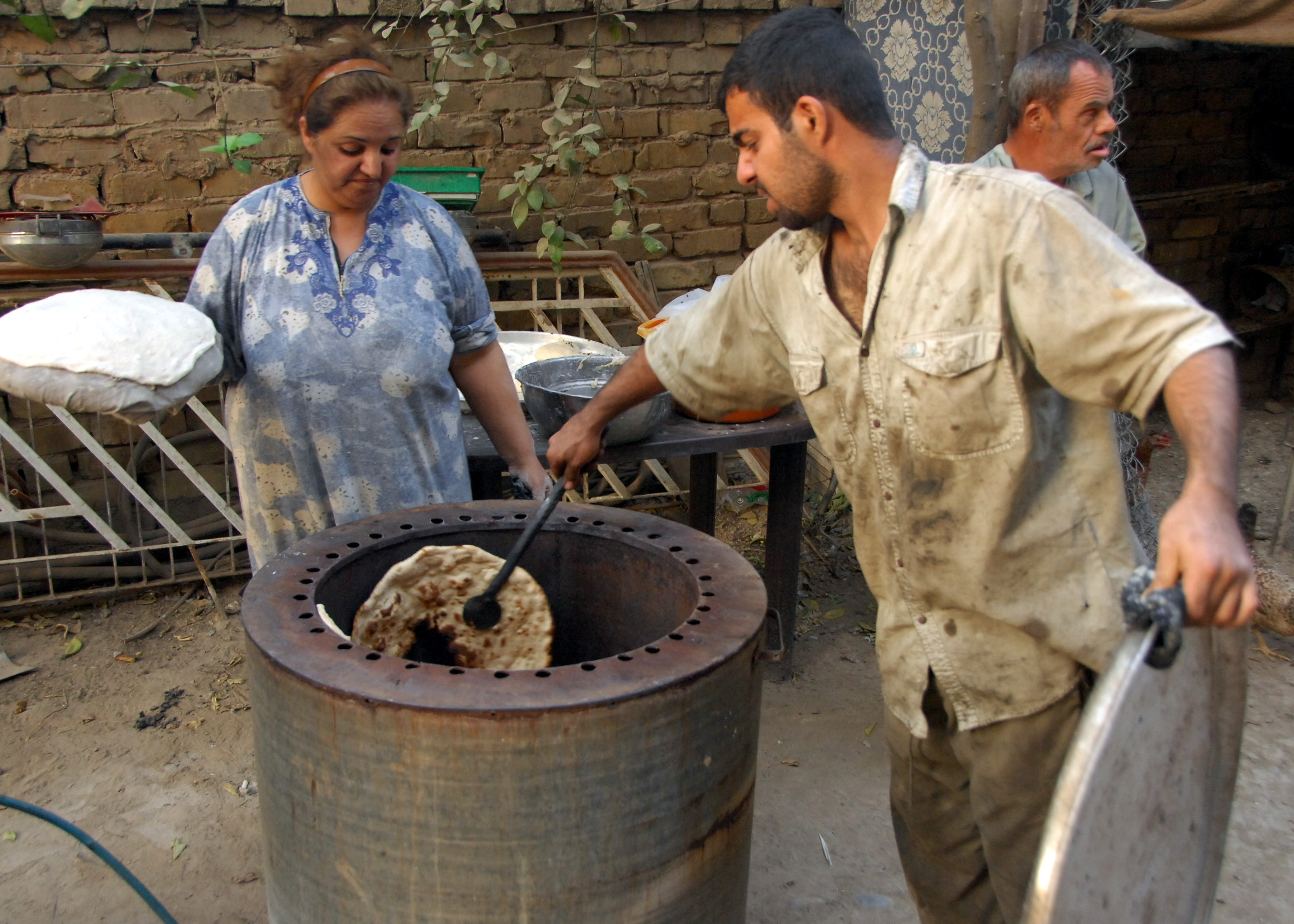 Iraqis make flatbread, Hateem neighborhood of Baghdad, Iraq